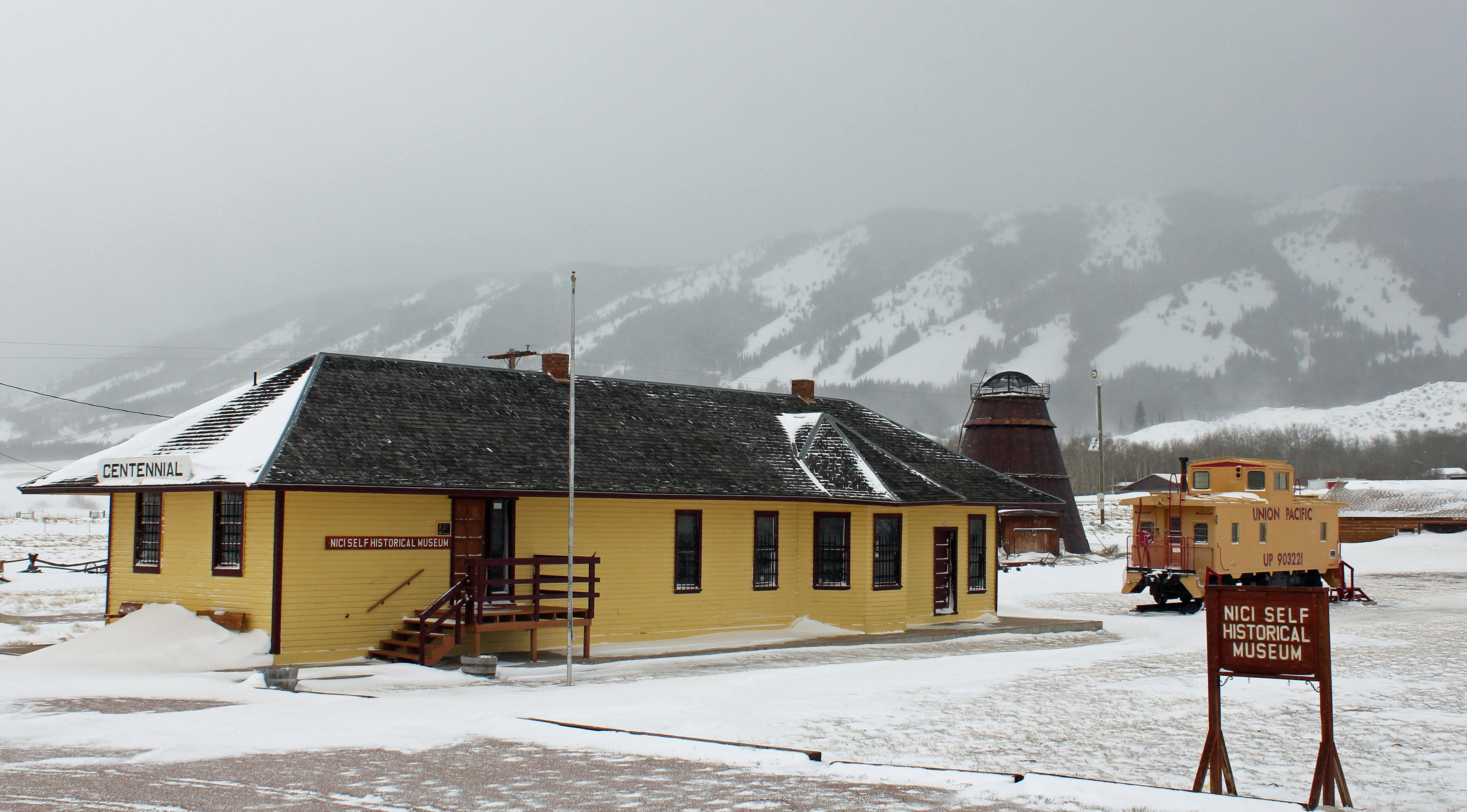 The Centennial Depot, located on Highway 130 in Centennial, Wyoming. The depot is now the Nici Self Historical Museum. The property is listed on the National Register of Historical Places.